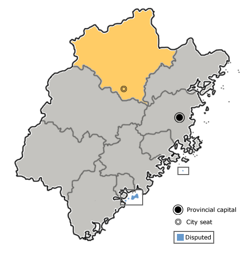 The prefecture-level of Nanping is highlighted on this map of Fujian province, People's Republic of China.